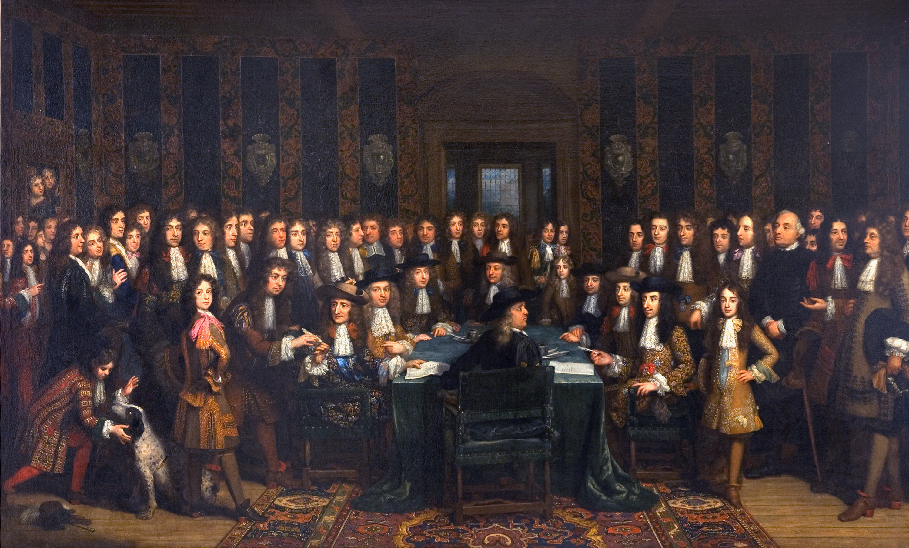 Peace of Nijmegen - The signing of the Peace between France and Spain, (17 September 1678)